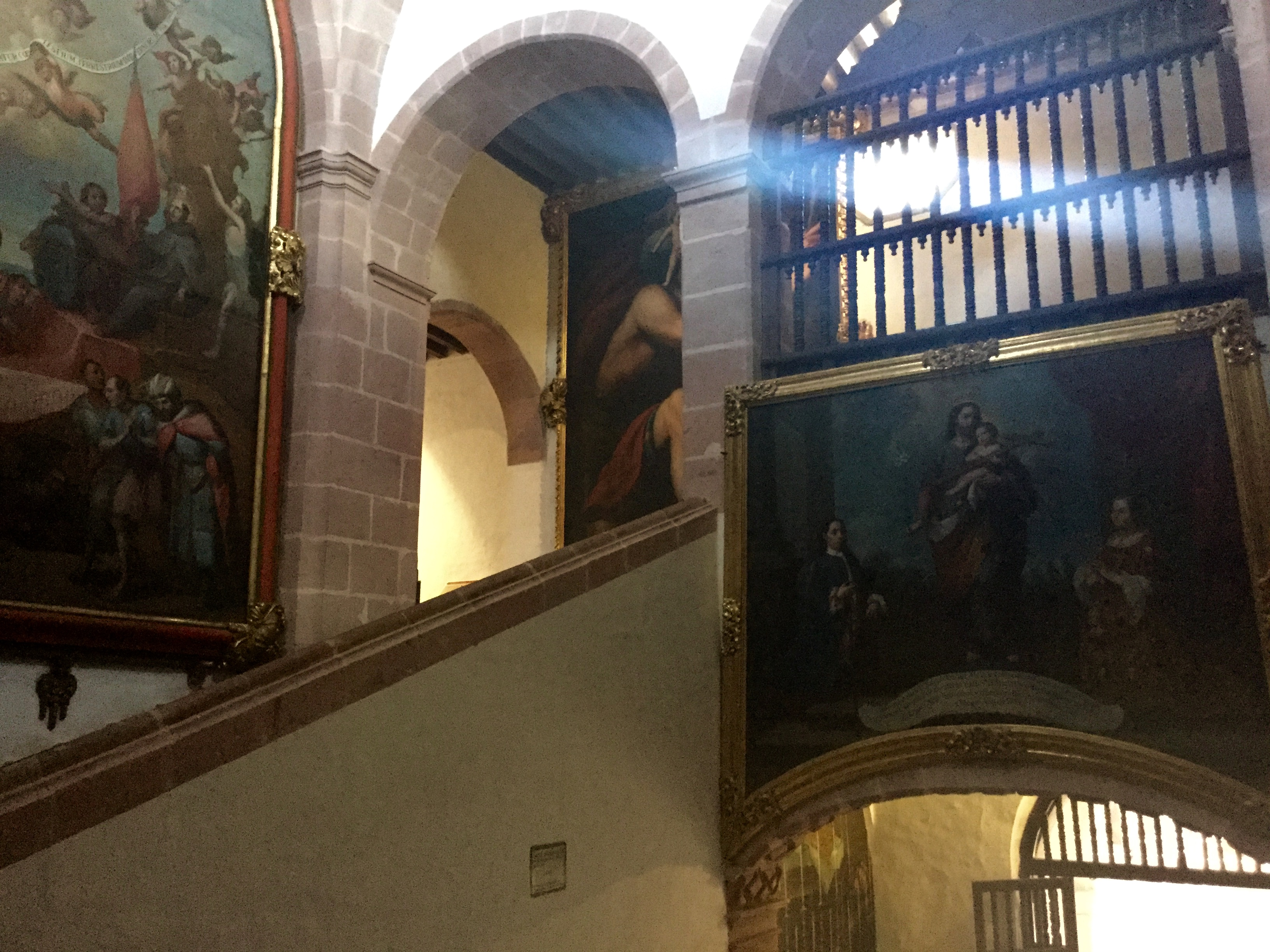 Vista de la escalera regia